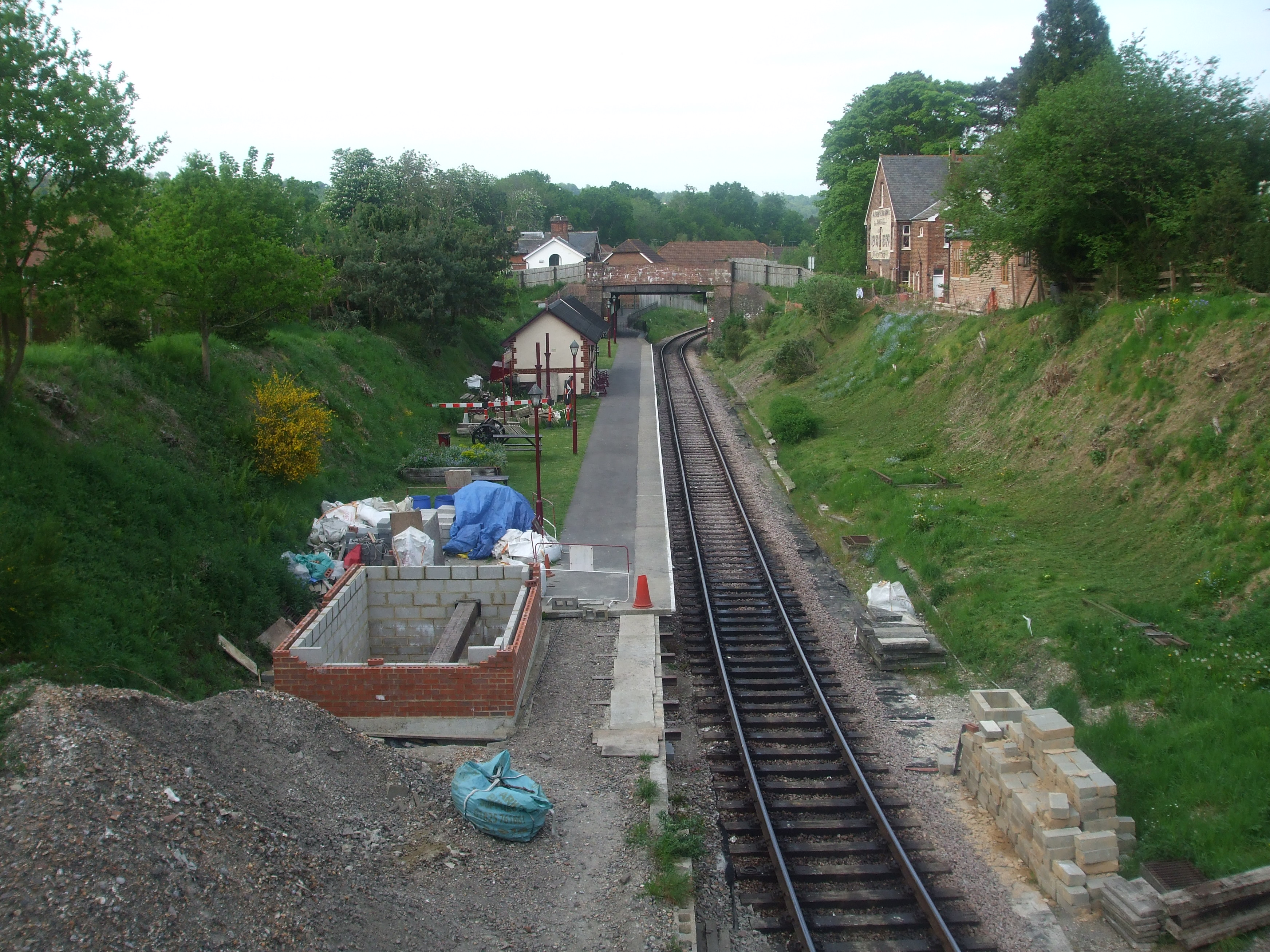 Groombridge Railway Station, Kent